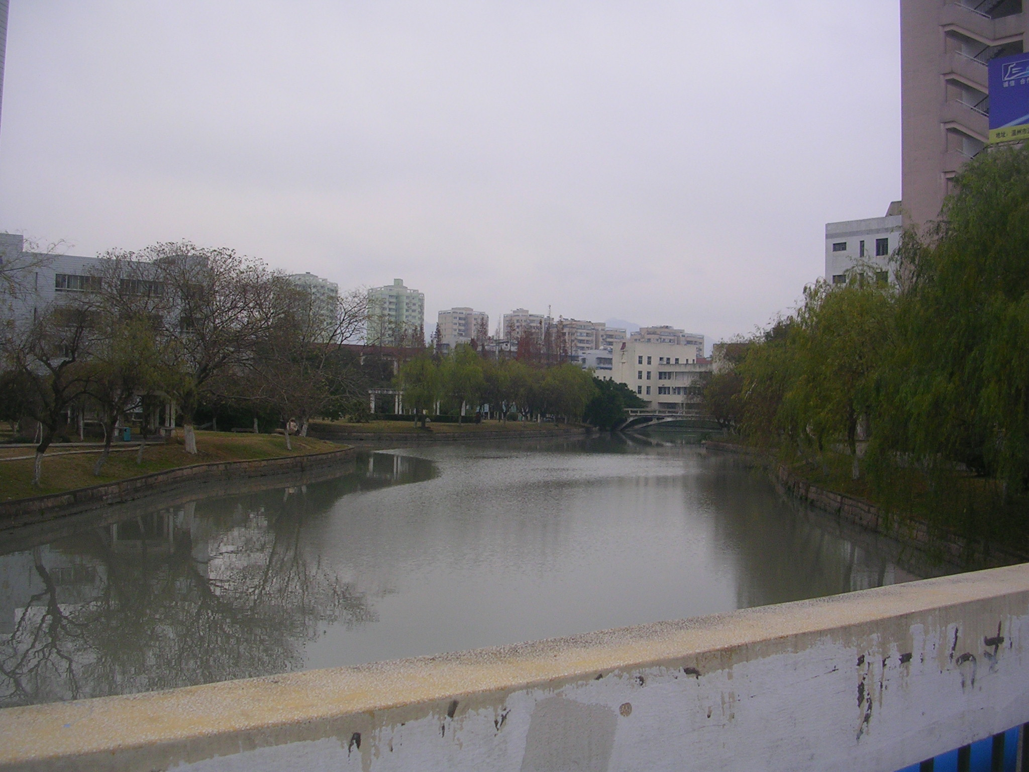 Photo from a bridge over the Lüpu River in Wenzhou. On the left bank is Wenzhou Normal University.